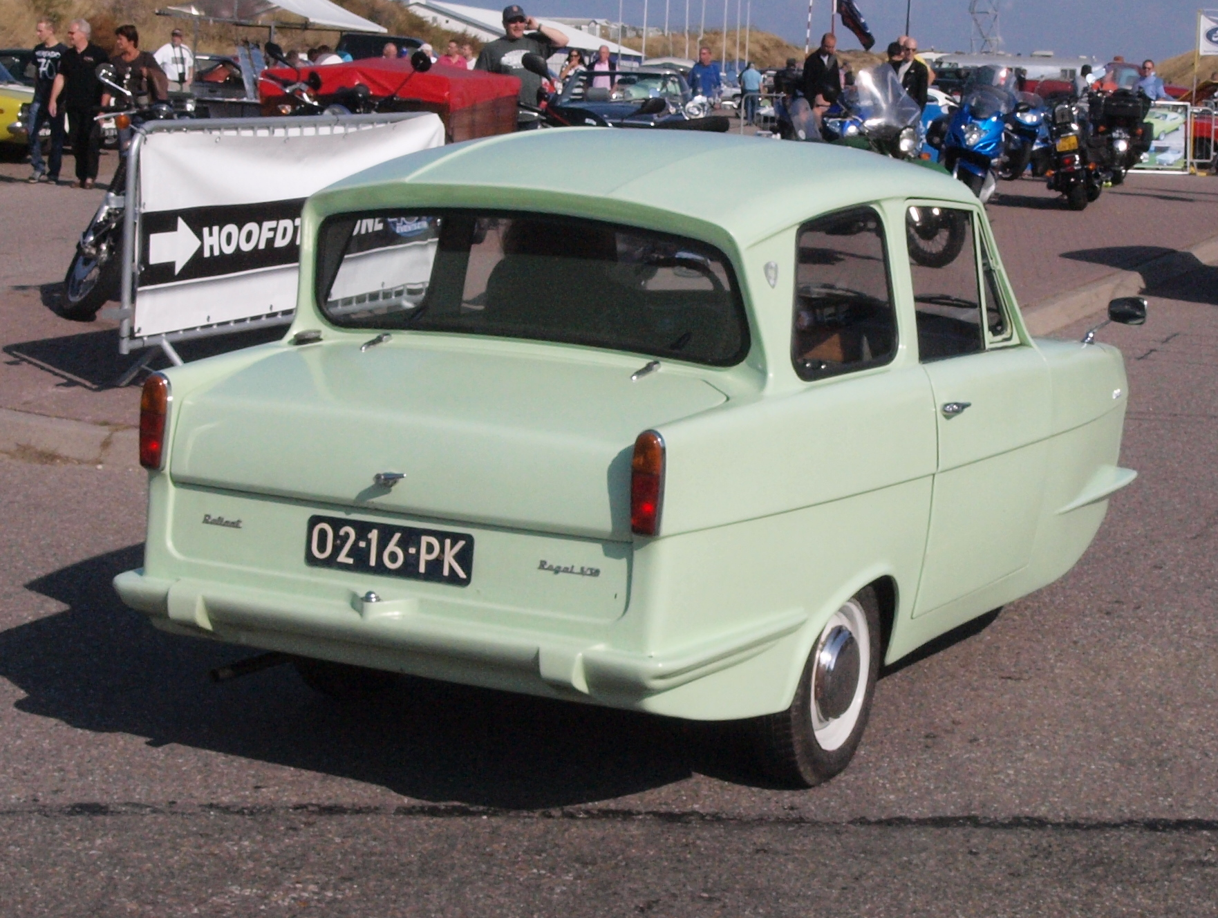 Photographed at the Nationaal Oldtimer Festival Zandvoort 2009, The Netherlands. OLYMPUS DIGITAL CAMERA